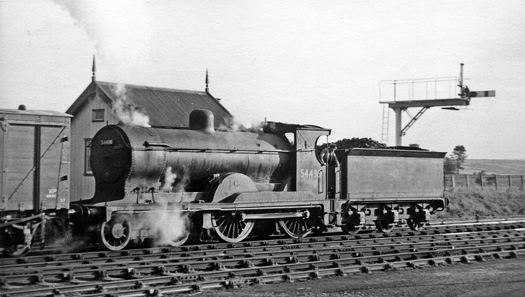 Locomotive at Evanton Station, View eastward; ex-Highland Inverness - Wick (Far North) line. The locomotive is ex-Caledonian Pickersgill 3P 4-4-0 No. 54496.